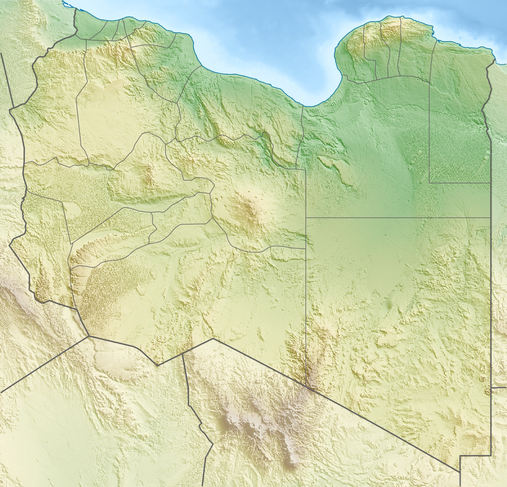 Physical location cartographic relief depiction map of Libya Equirectangular projection, N/S stretching 110 %. Geographic limits of the map: N: 33.4° N S: 19.1° N W: 9.1° O O: 25.5° O